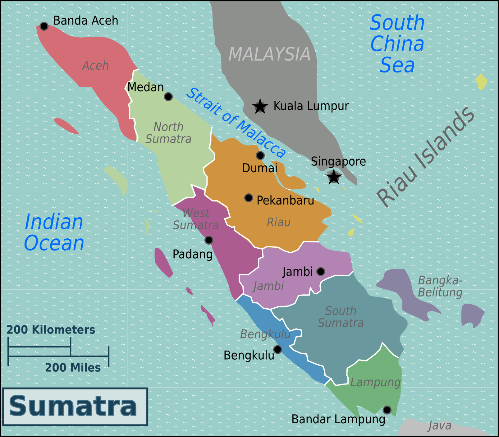 Wikivoyage region map for Sumatra.